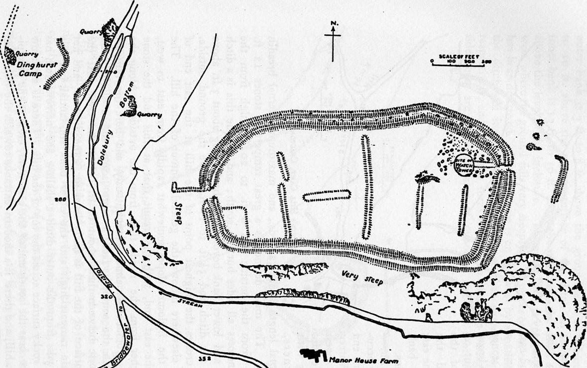 Map of earthworks at Dolebury Camp, Churchill, Somerset, England.